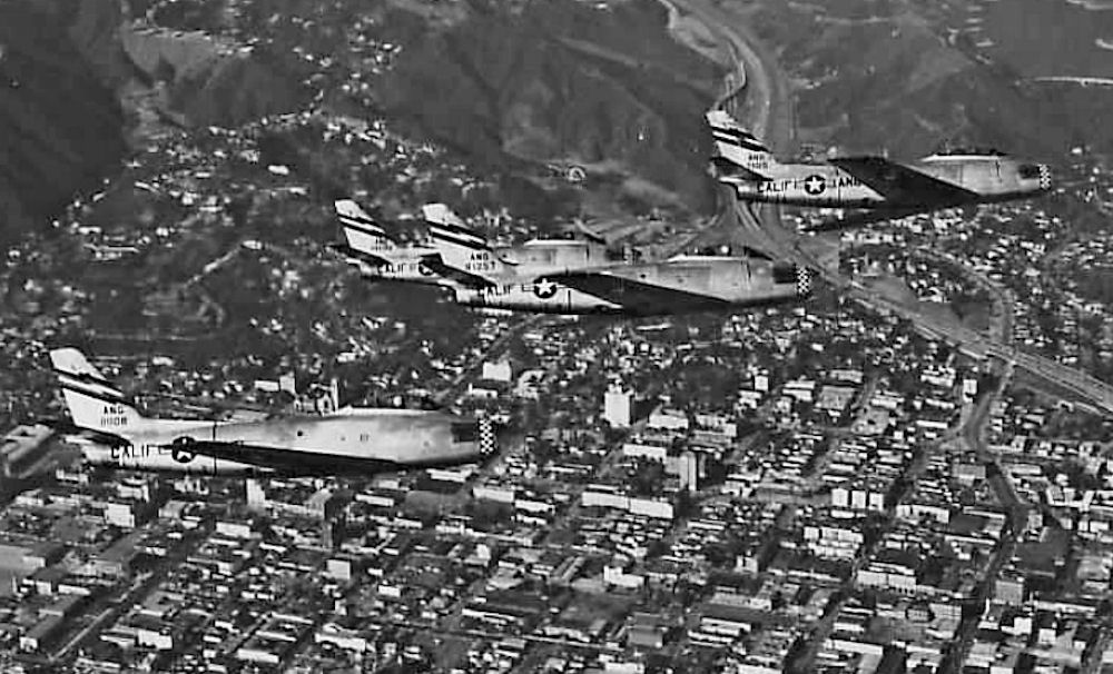 115th Fighter-Bomber Squadron - North American F-86A Formation.